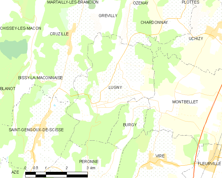 Map of French municipality